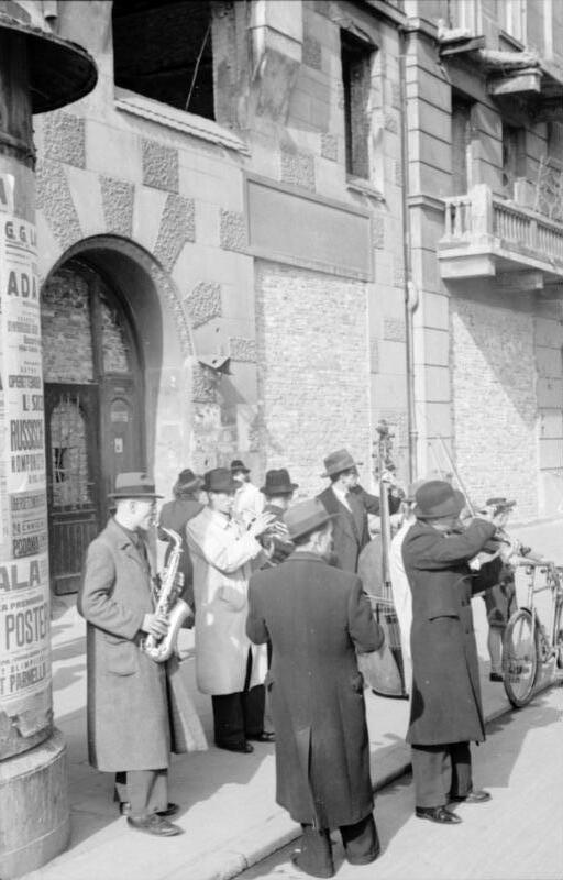 Warsaw during World War II: Street musicians on Mazowiecka Street in front of Count Ostrowski Townhouse standing on a corner of Świętkorzyska and Mazowieckia Street (Mazowiecka 1 corner of Świętokrzyska 24/26).